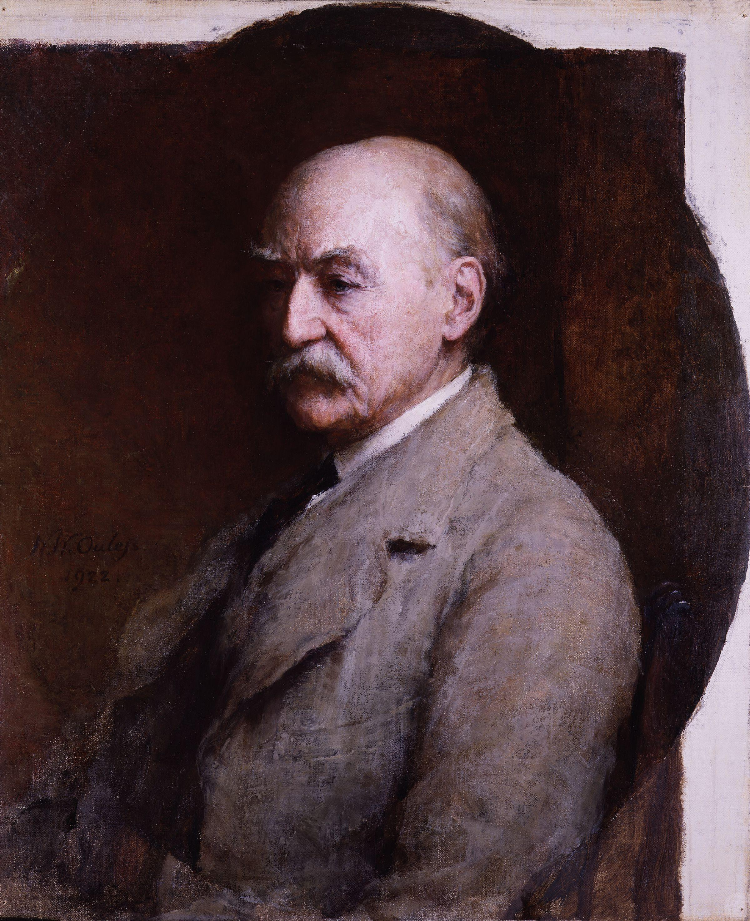 Thomas Hardy, by Walter William Ouless (died 1933). All images in this batch have been confirmed as author died before 1939 according to the official death date listed by the NPG.